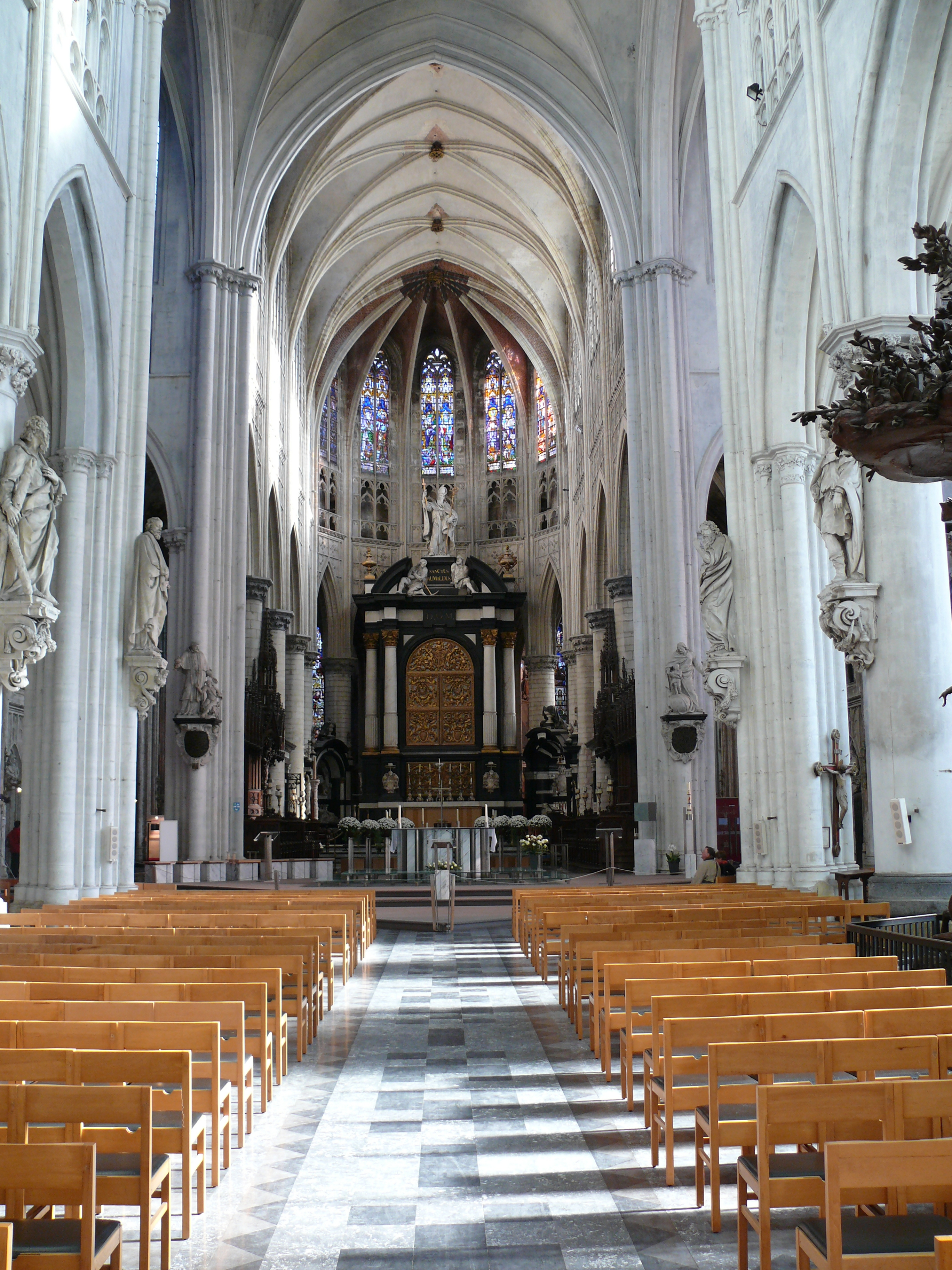 The aisle and choir of St-Rumbold's Cathedral in Mechelen (Belgium). The main altar was designed by Willem Hesius s.j. and made by Lucas Faydherbe. The statue on top is Saint Rumbold by Lucas Faydherbe. The gilded arcs and doors were carved by Artus Quellin de Jonge. The statues along the sides in the aisle are tose of the apostles by Lucas Faydherbe.